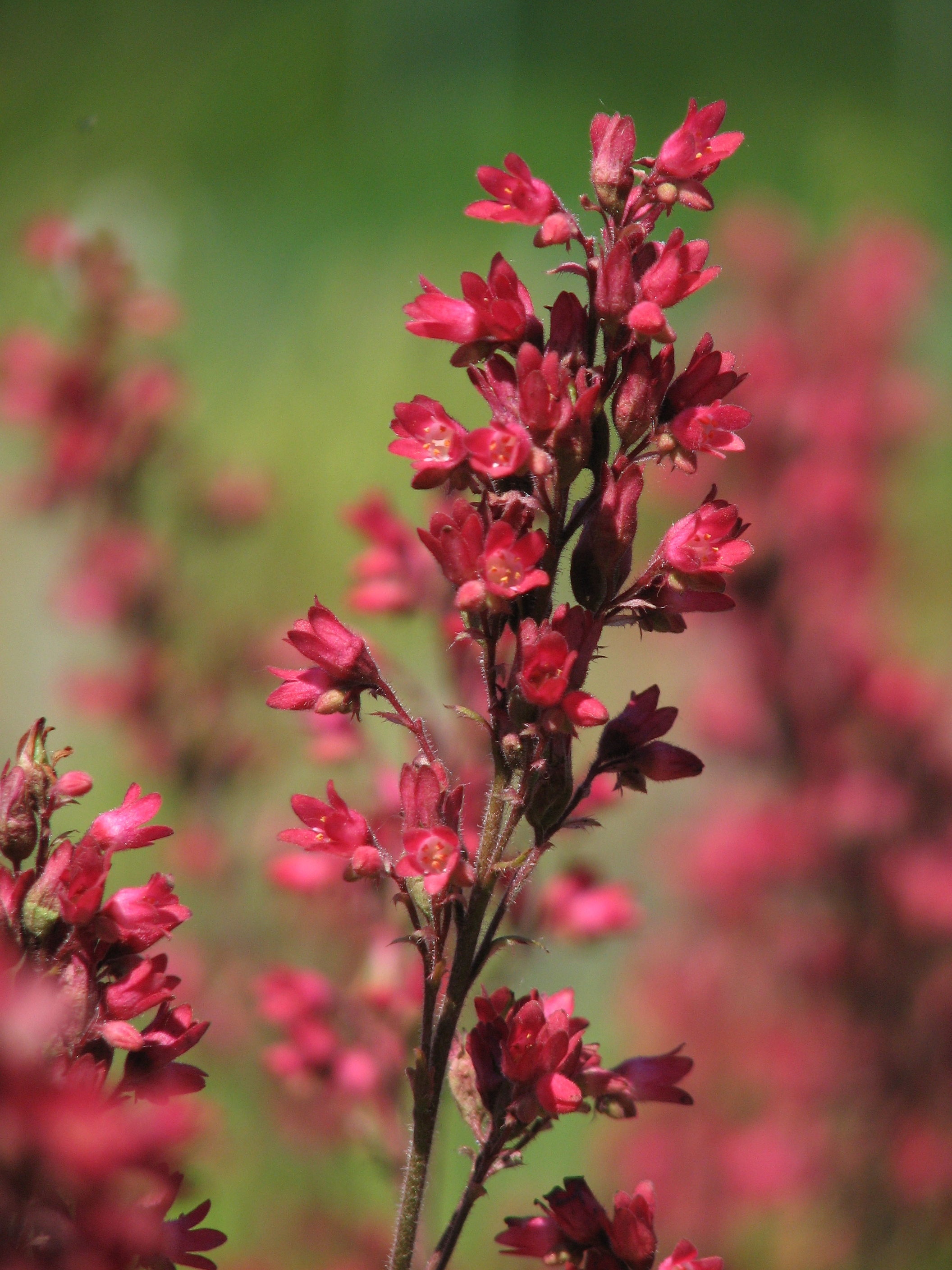 Heuchera sanguinea. From the collection of the Main Botanical Garden of Academy of Sciences in Moscow (perennials plot).